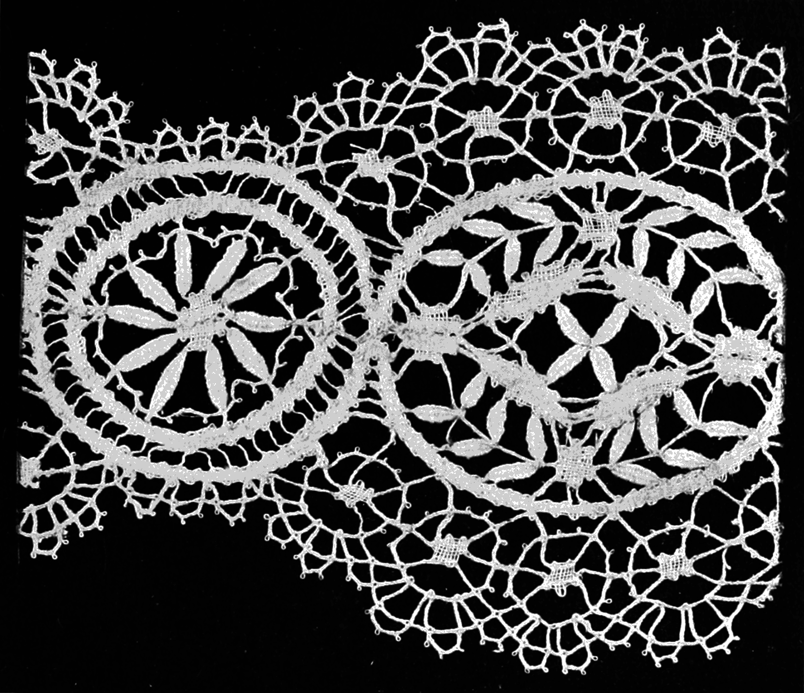 "Real Cluny."